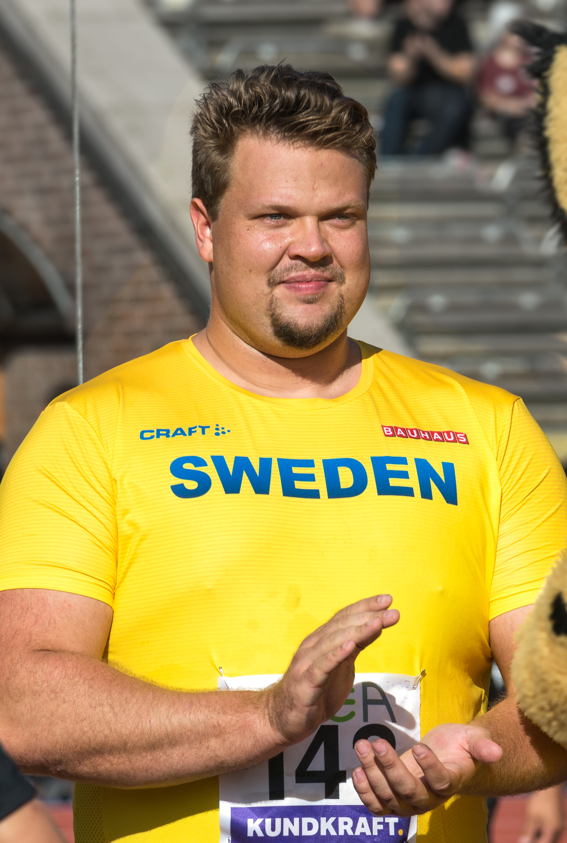 Daniel Ståhl during the Finland-Sweden athletics international 2019 at the Stockholm Stadium in August 2019. Ståhl wins the discus competition with 69.42.